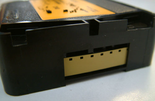 Super 8mm film cartridge film. Kodak Eastman Ektschrome 7240 film. Photographed by Cybertrix 2005. Free for anyone who wants to use it.